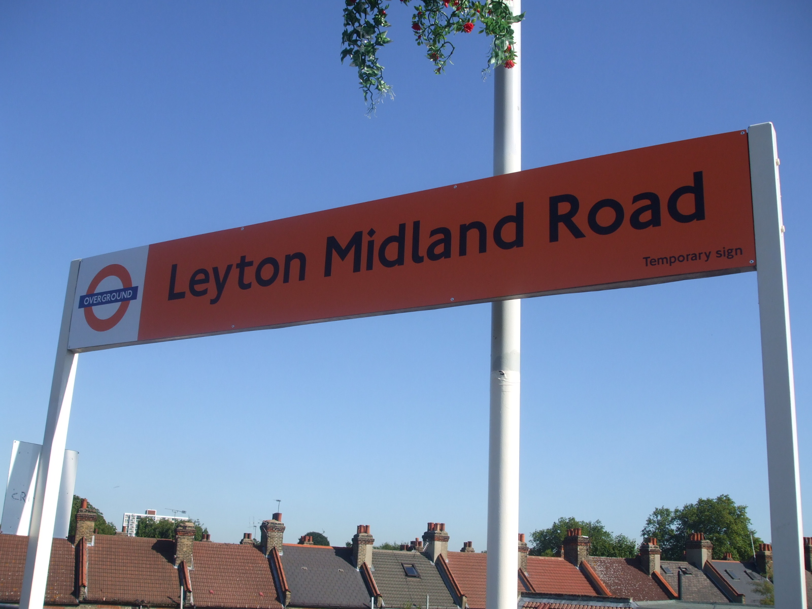 Leyton Midland Road station platform signage (temporary, photo taken August 2008)